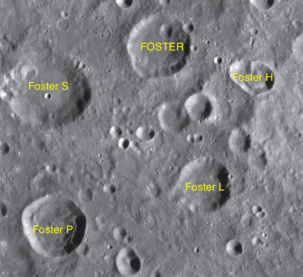 Part of the chart LAC-52.